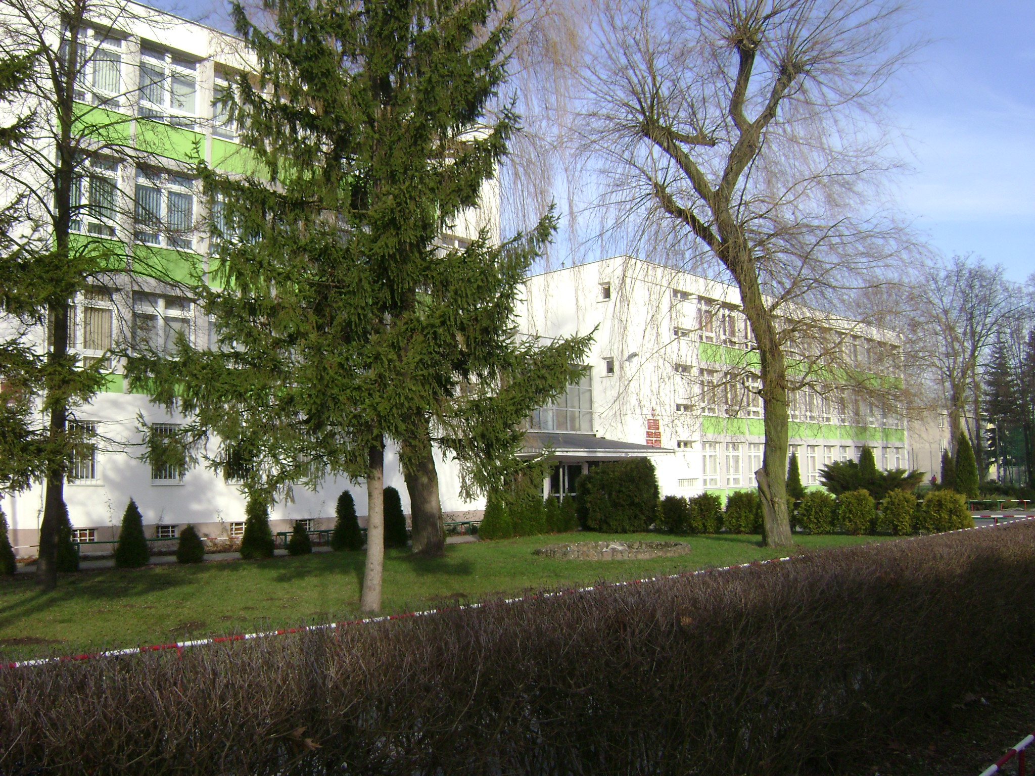 Poland. Konstancin-Jeziorna.